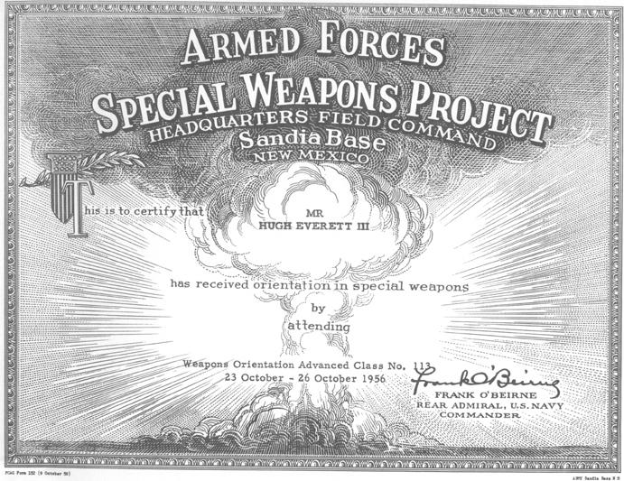 Training certificate issued by Special Weapons Evalution Group at the Pentagon in 1956 and issued to all attendees.